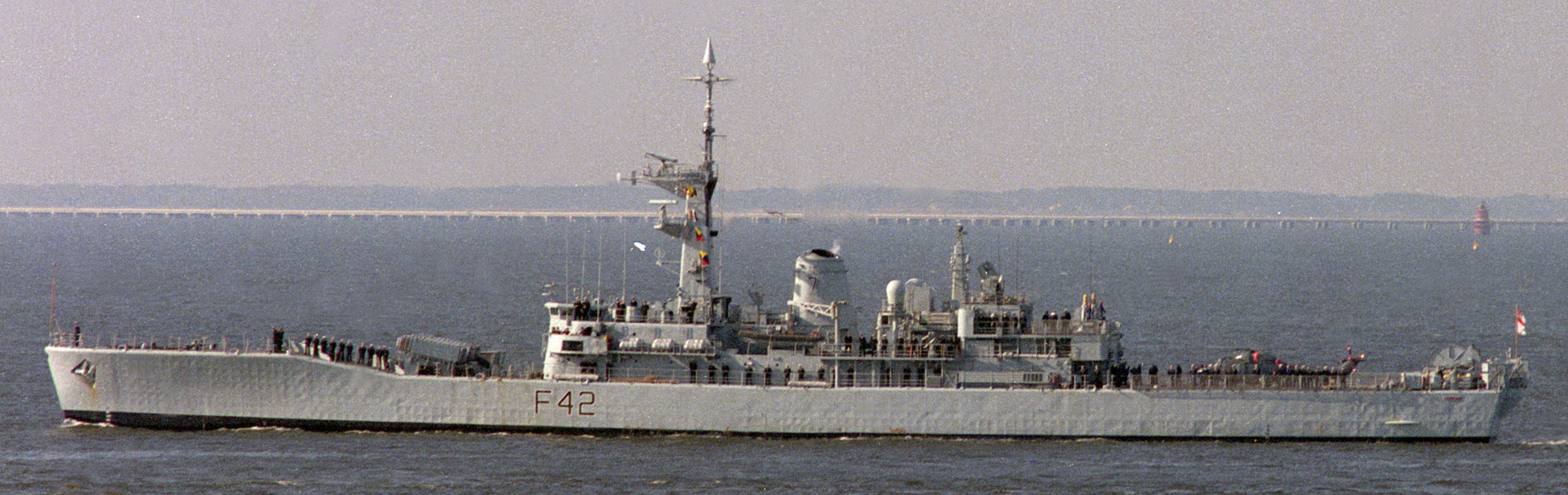 The British Leander-class frigate HMS Phoebe (F42) coming into Naval Station, Norfolk, Virginia (USA), on 19 January 1990. Note the Westland Lynx helicopter aft.